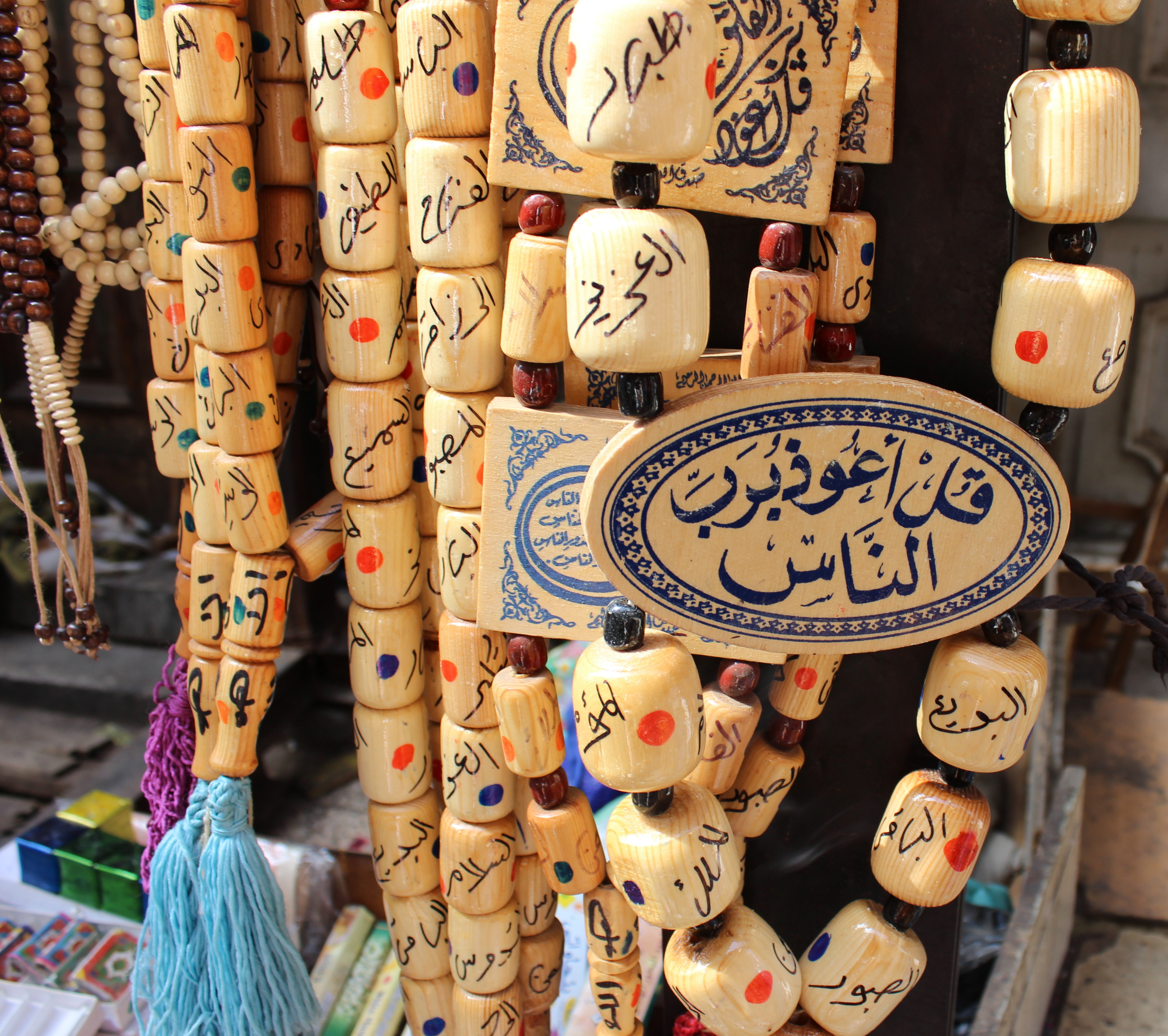 Cultural Fashion and Adornment, El Moez Street, Cairo, Egypt. This is an image of Cultural Fashion or Adornment from مصر